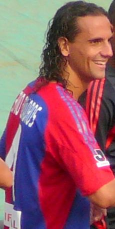 Bruno Quadros from FC Tokyo